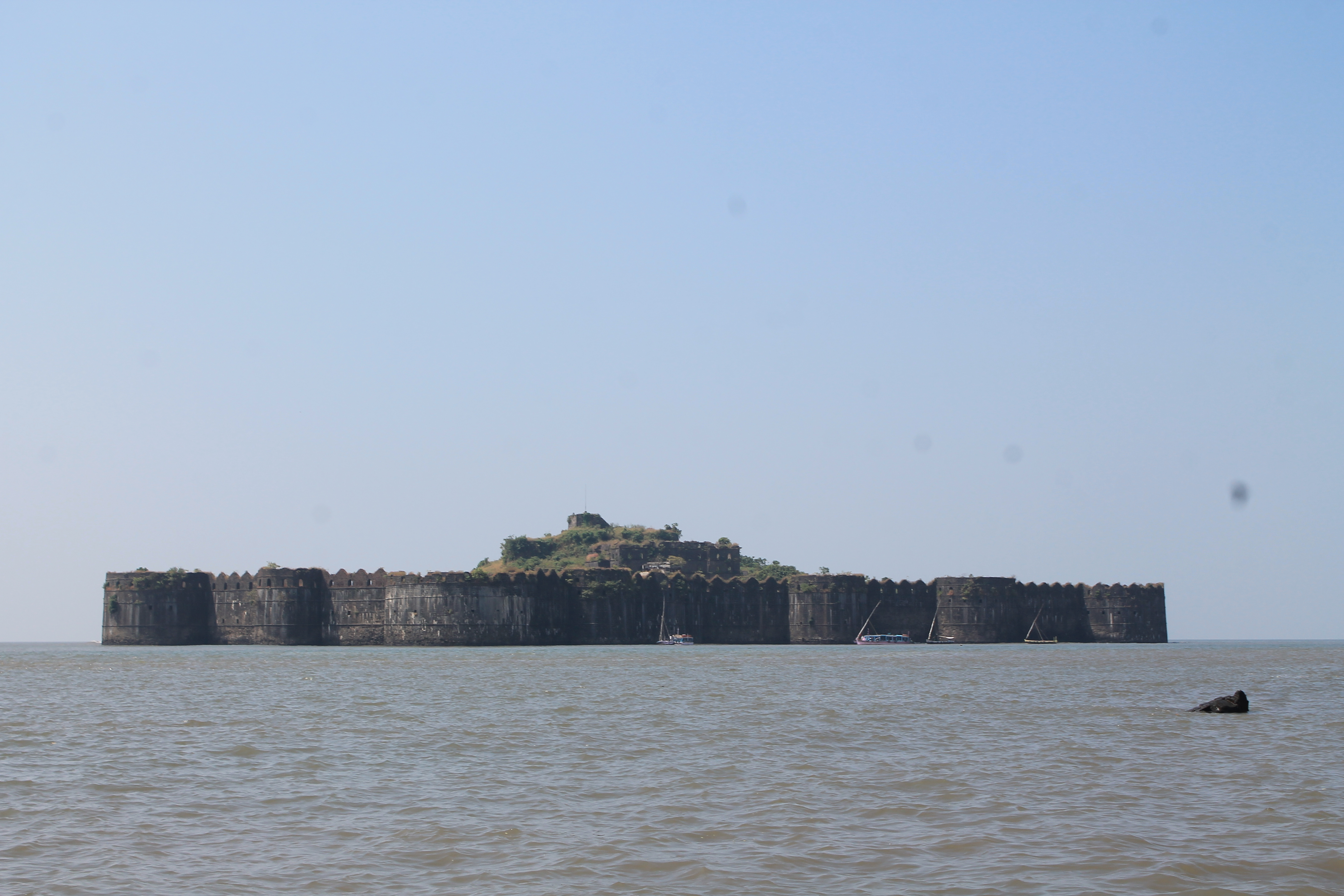 Image of Murud Janjira fort taken from Naya Nagar Ferry Point at Rajapuri